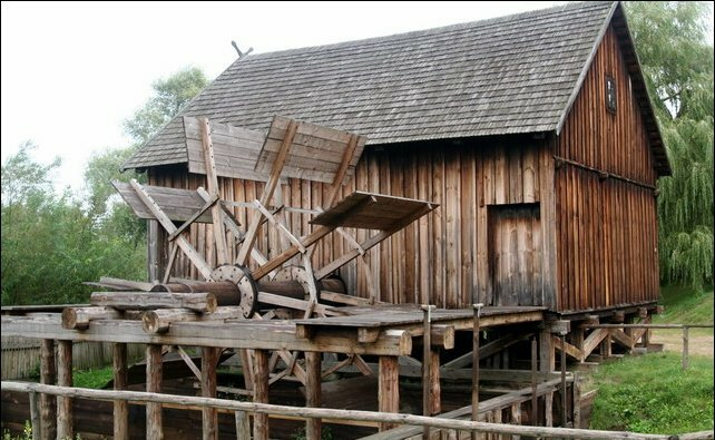 Kurpie Museum in Nowogród